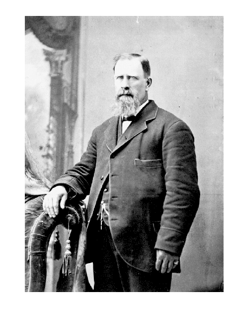 Black and white photo of a standing bearded man